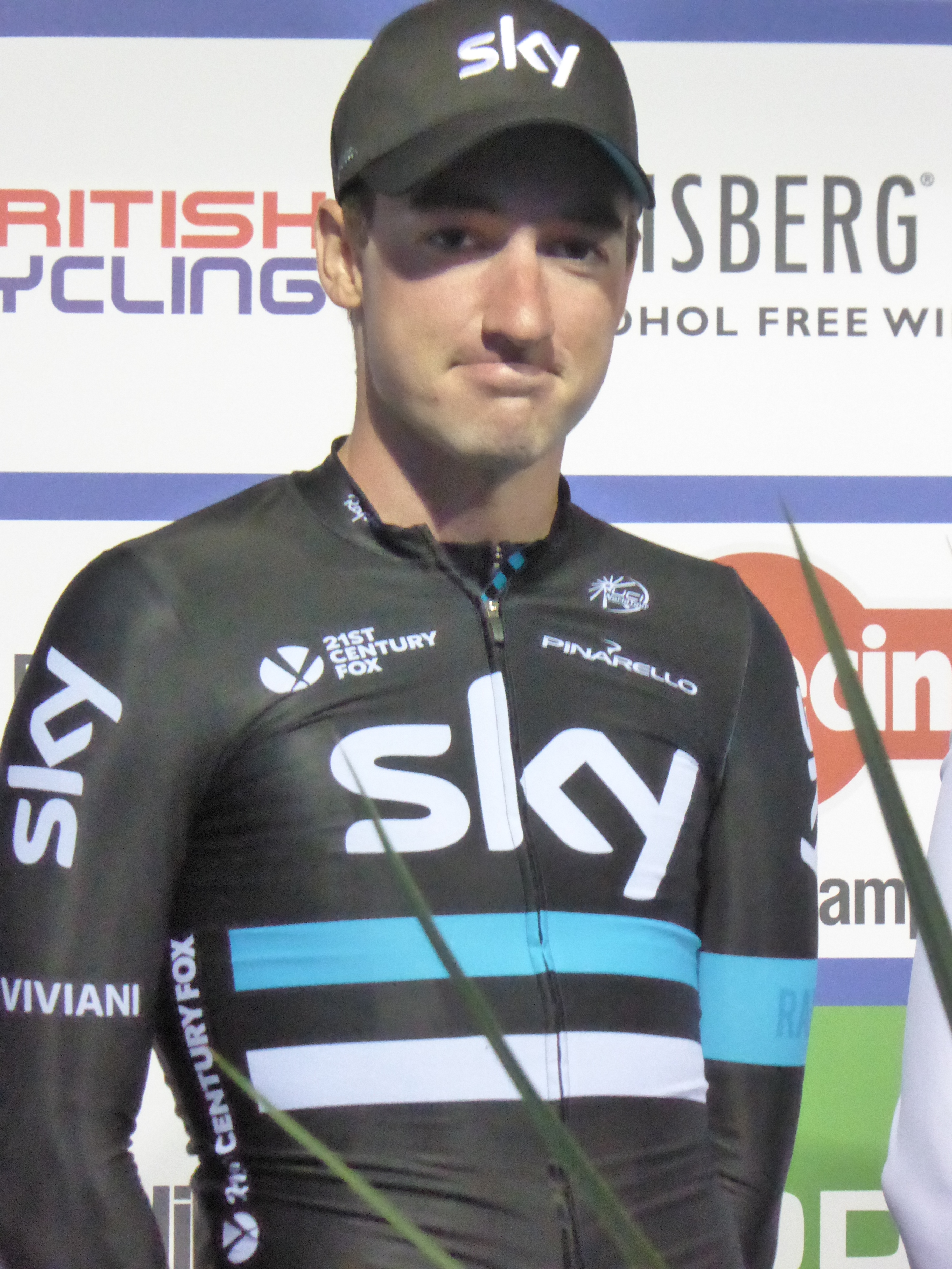 Elia Viviani (Team Sky), pictured at the 2016 Tour of Britain team presentation in Glasgow on 3 September 2016.